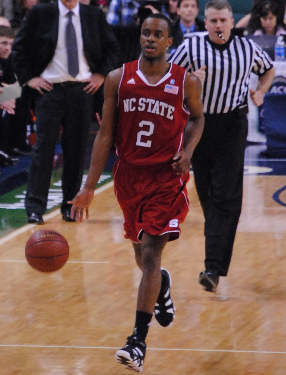 Lorenzo Brown brings the ball up court